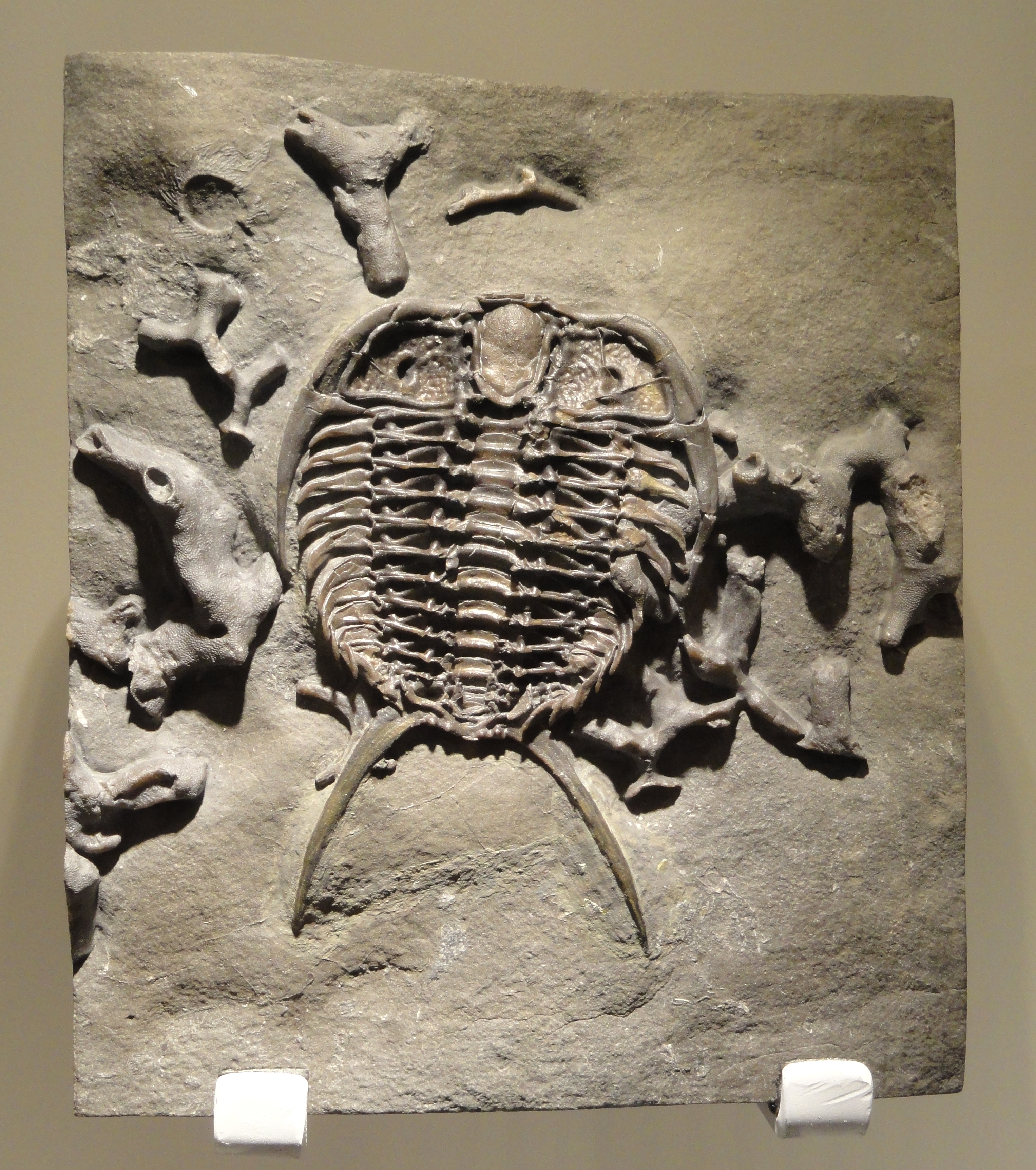 Exhibit in the Houston Museum of Natural Science, Houston, Texas, USA.